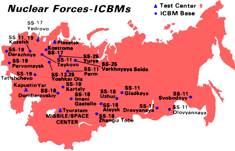 Map of Soviet ICBM bases and space facilities from U.S. Department of Defense 'Soviet Military Power,' 1980s